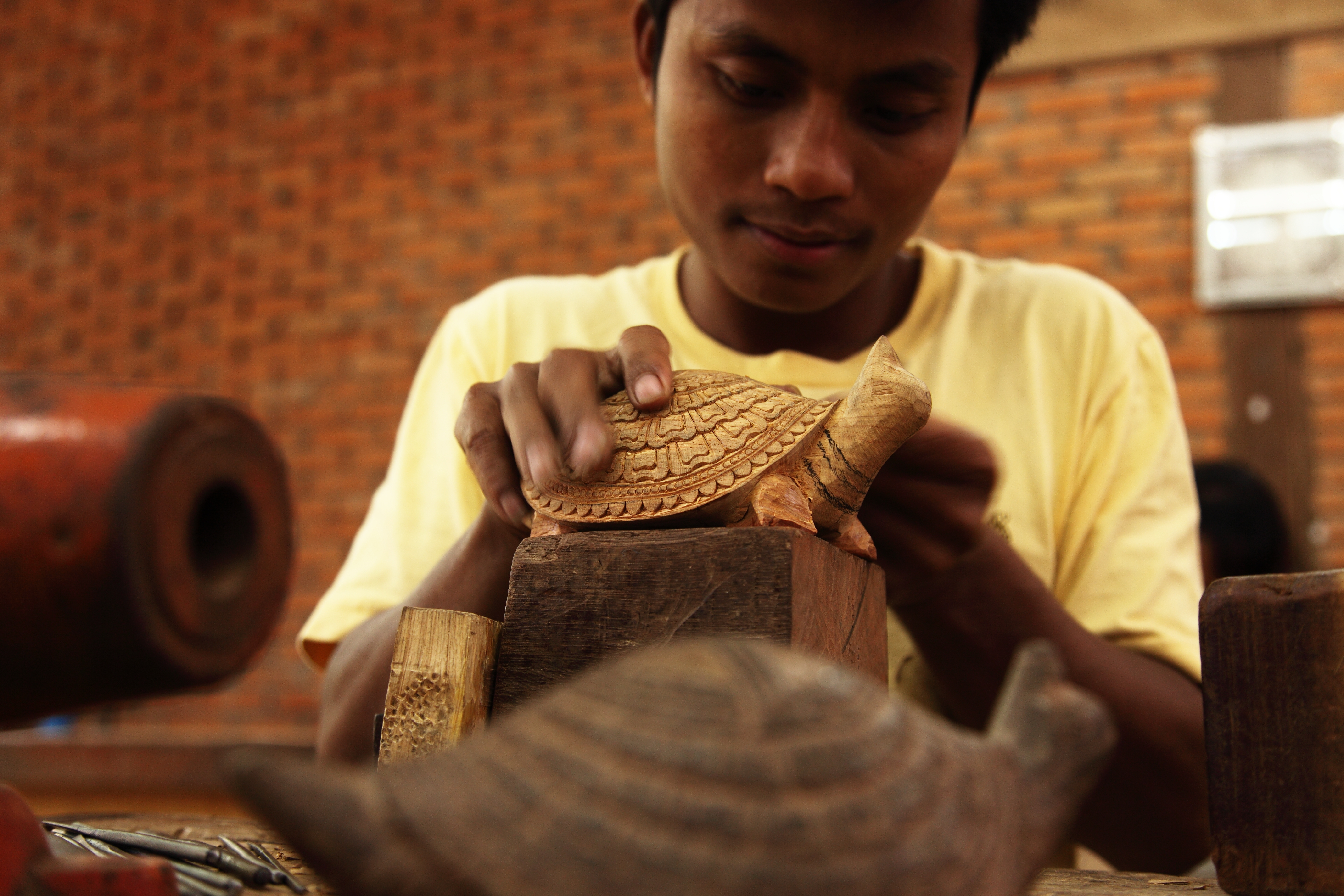 Artisan working meticulously on a wooden sculpture